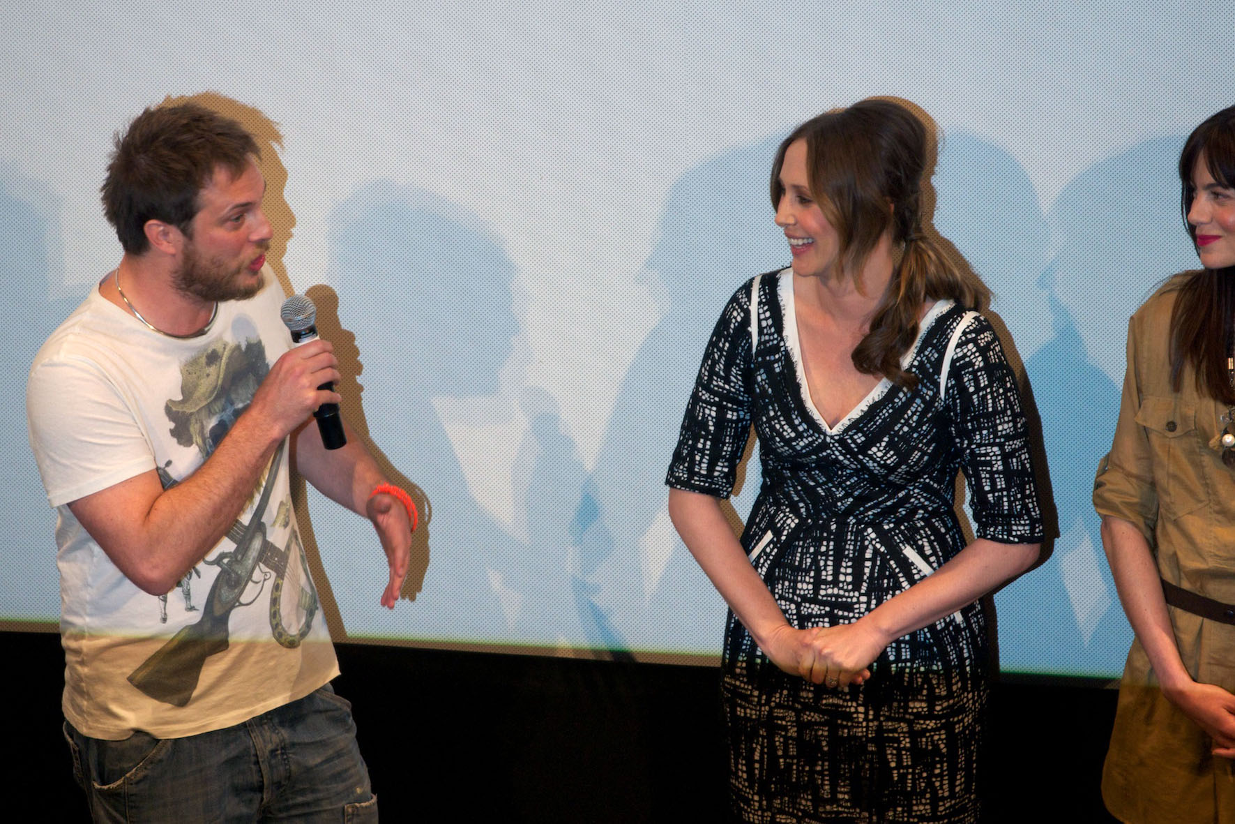 Duncan Jones (left), Vera Farmiga (center) and Michelle Monaghan (right) at the SXSW 2011 Source Code premiere on March 12, 2011.